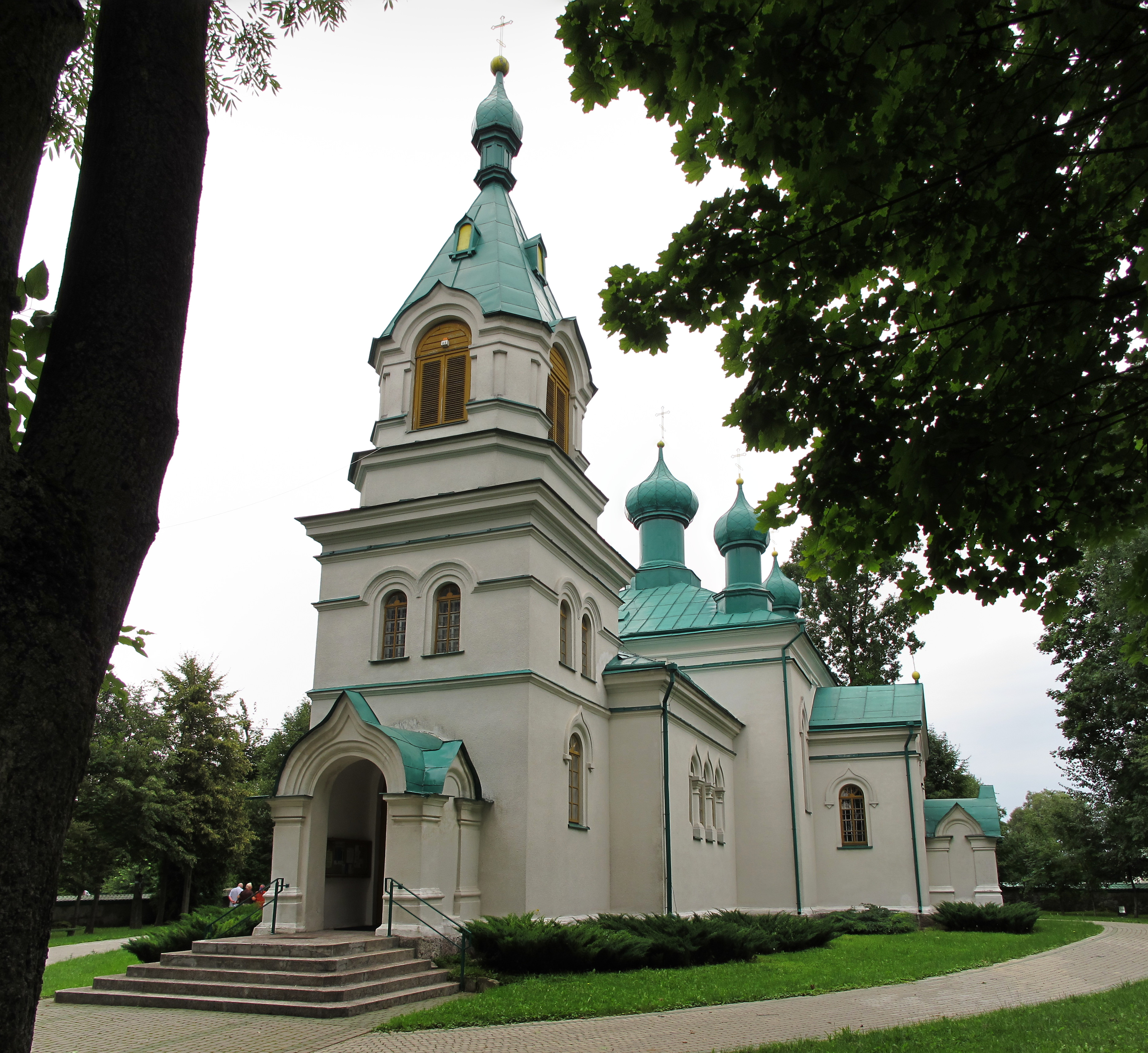 Saints Cosmas and Damian orthodox church in the Ryboły village, gmina Zabłudów, podlaskie, Poland This image was created with Hugin.